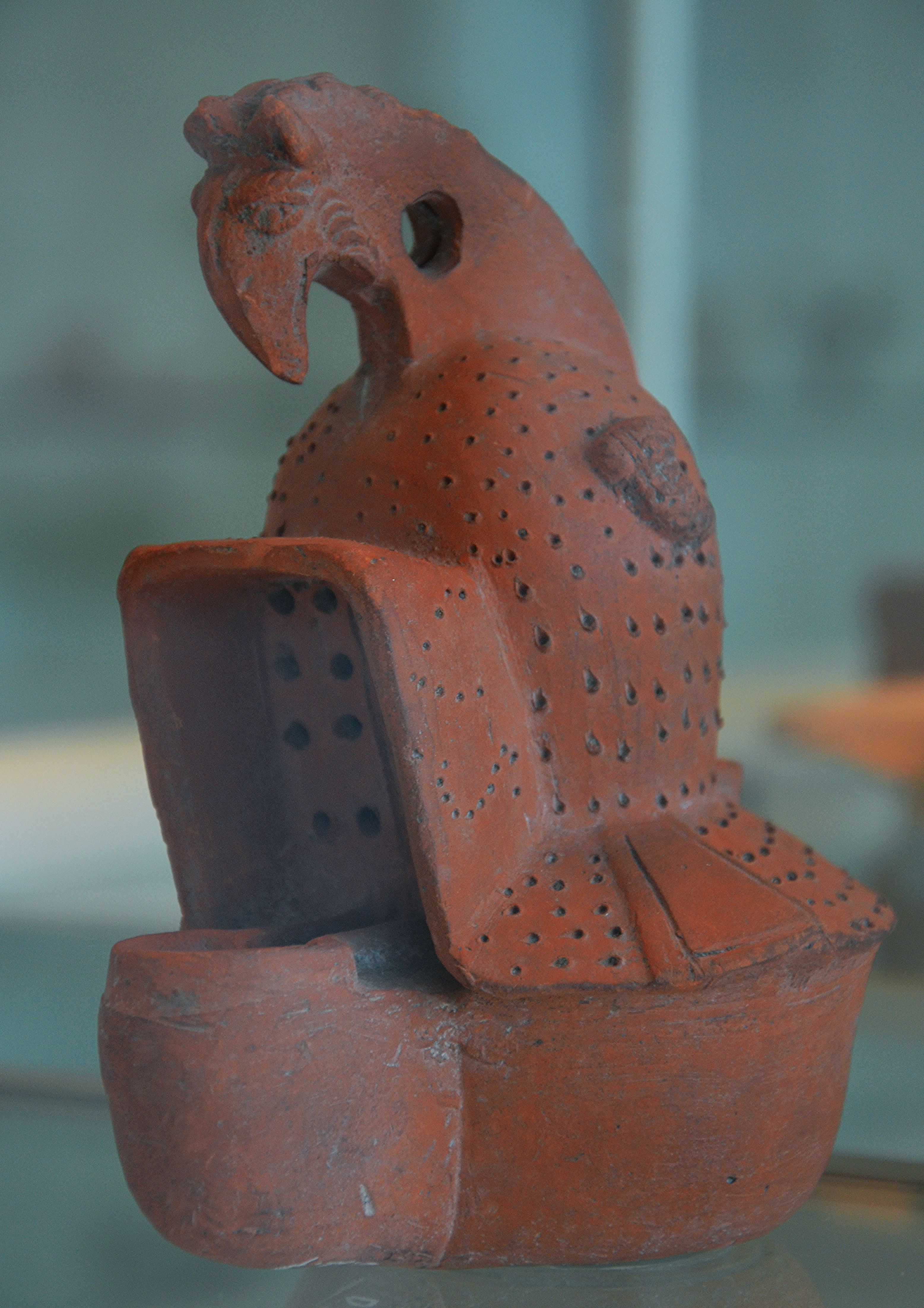 Terracotta oil lamp in the shape of a gladiator helmet, Museum het Valkhof, Nijmegen (Netherlands)